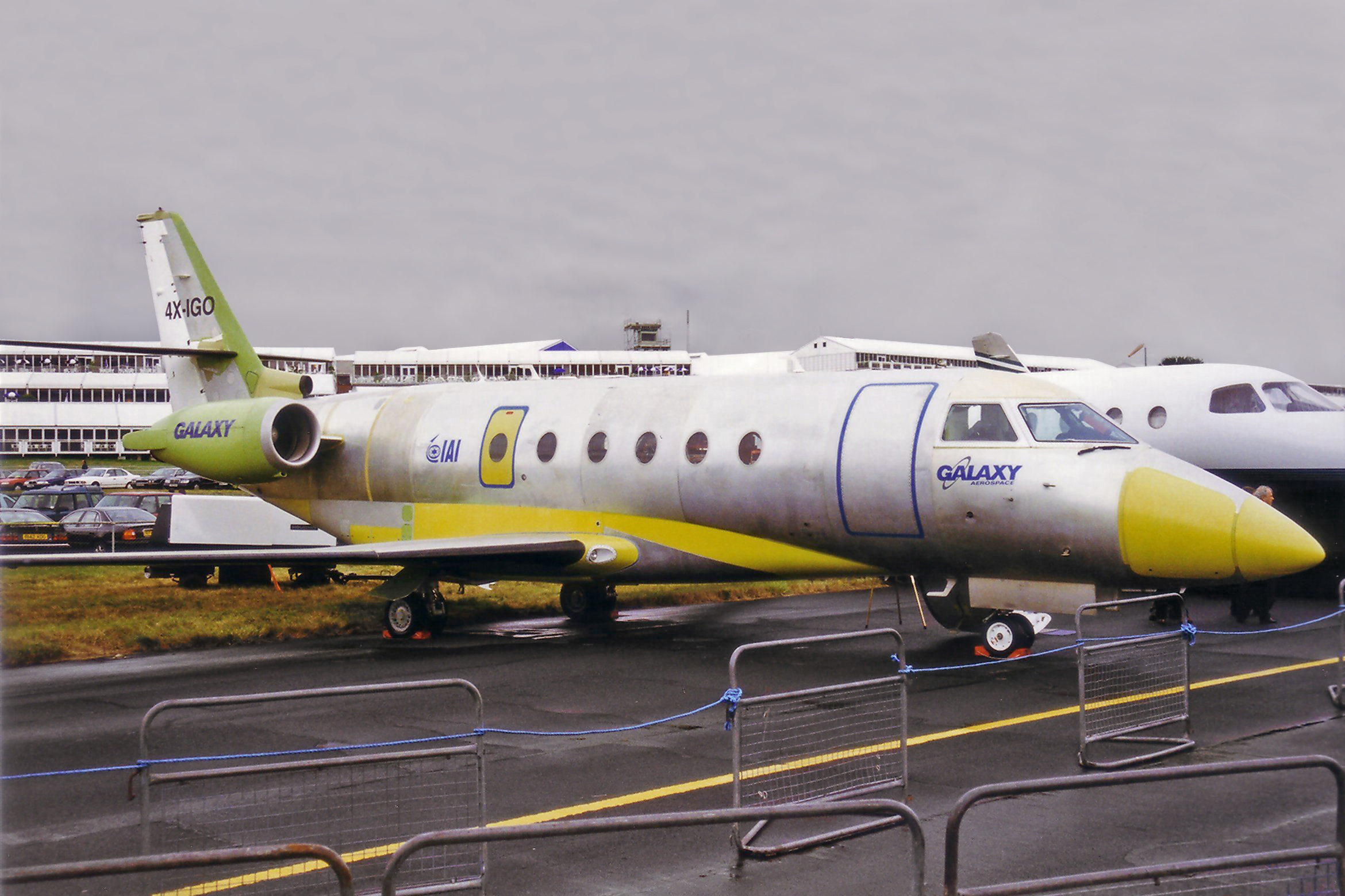 IAI Galaxy , 4X-IGO,at Farnborough Air-show Great Britain